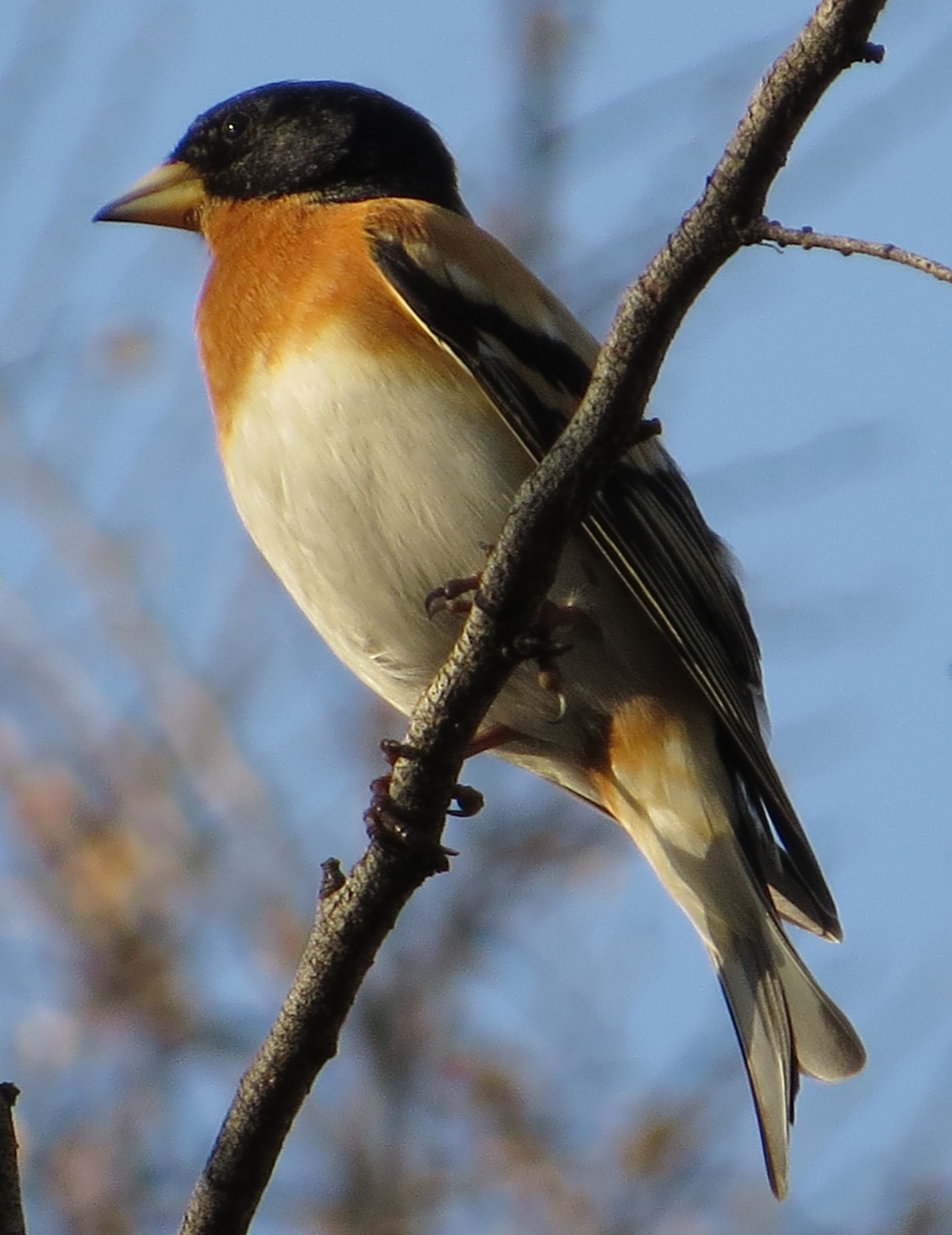 Brambling (Fringilla montifringilla), male in Aichi prefecture, japan.